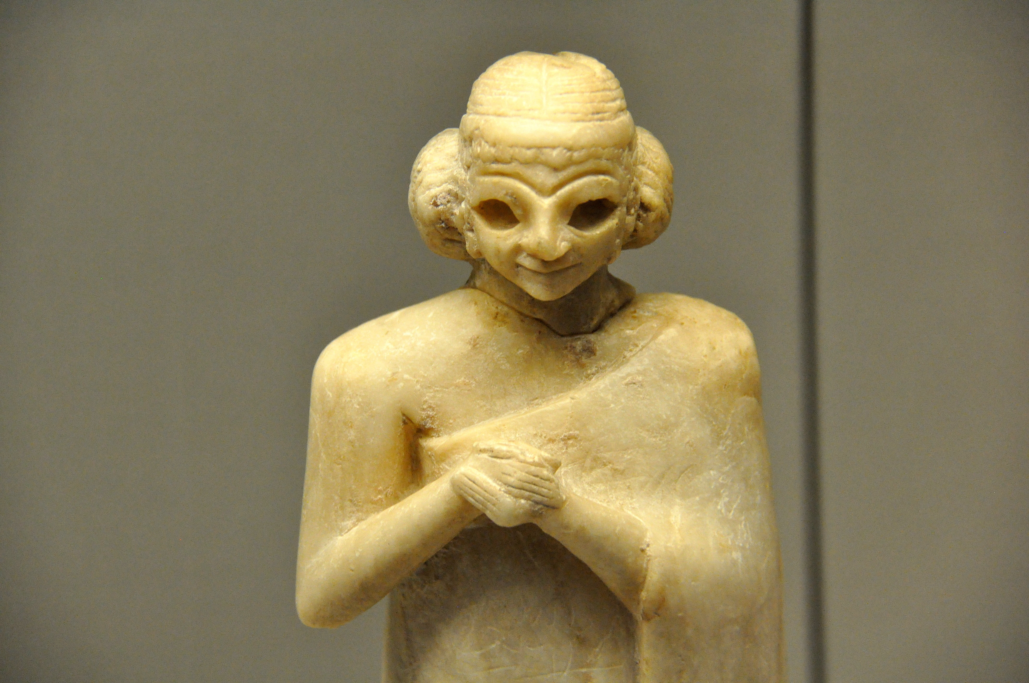 Upper part of a gypsum statue of a Sumerian woman. The hands are folds in worship. The eyes would have been inlaid. A sheepskin garment is wrapped on the left shoulder. Early Dynastic Period, c. 2400 BCE. From Mesopotamia, modern-day Iraq. The British Museum, London.